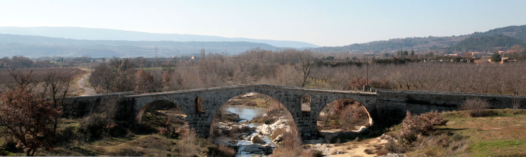 The Roman Pont Julien in Apt, southern France. View from est of the Roman bridge "Pont Julien" in Vaucluse, France